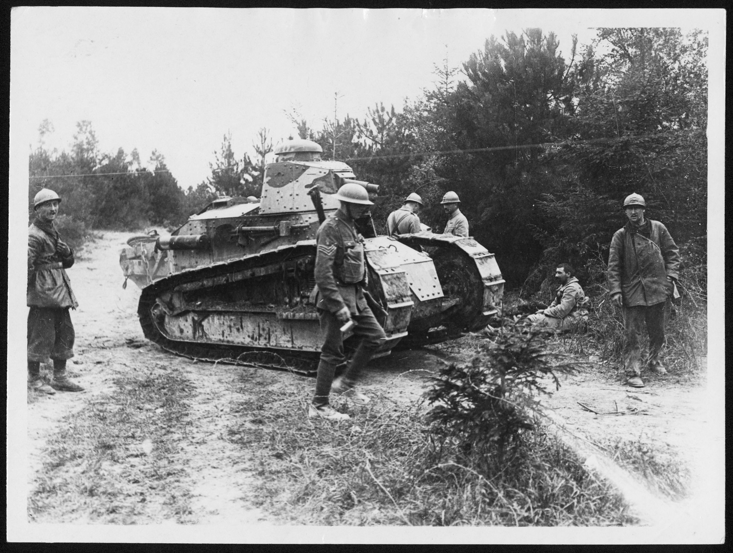 Fighting in Champagne. Troops with an Allied tank preparing to go into action, in France, during World War I. British and the French soldiers with one of the tanks that were at the cutting edge of new military technology during World War I. Both Britain and France produced tanks in large numbers in the last years of the war. First used at the Somme in September 1916, the true effectiveness of tanks only became apparent during a successful Allied attack at Cambrai in November 1917. The Champagne region of France at the southern end of the Western Front remained one of the most entrenched areas of conflict throughout the war. [Original reads: 'Fighting in Champagne. One of the Tanks waiting to move forward.']